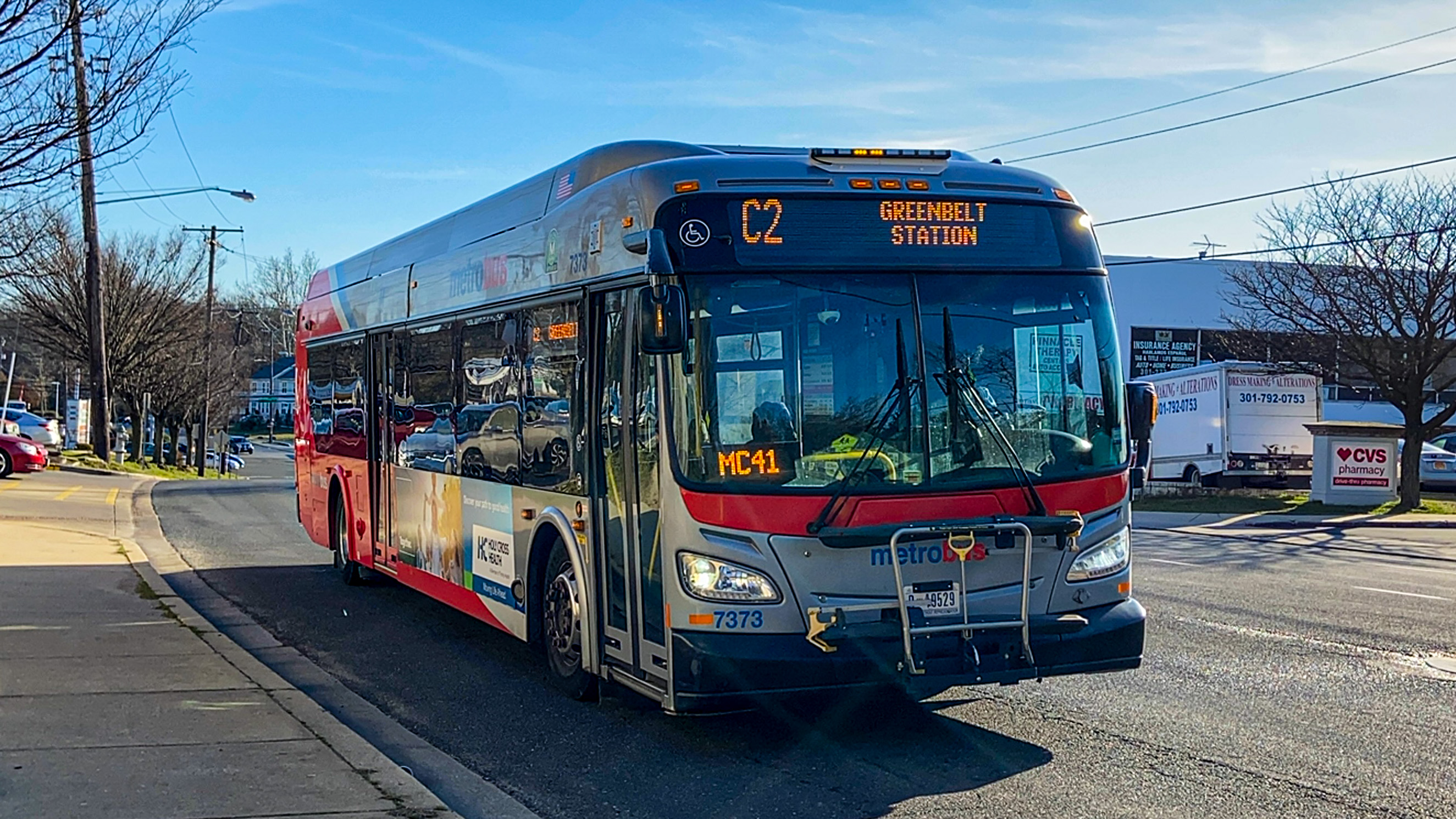 WMATA New Flyer XDE40 7373 on Route C2